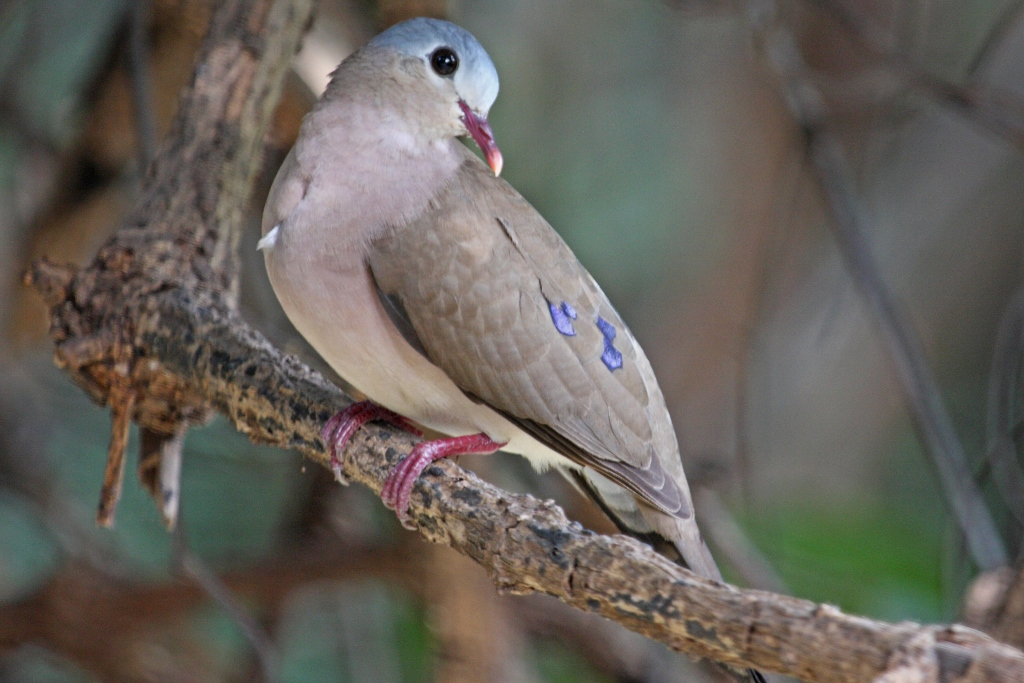 A Blue-spotted Wood Dove in Gambia.